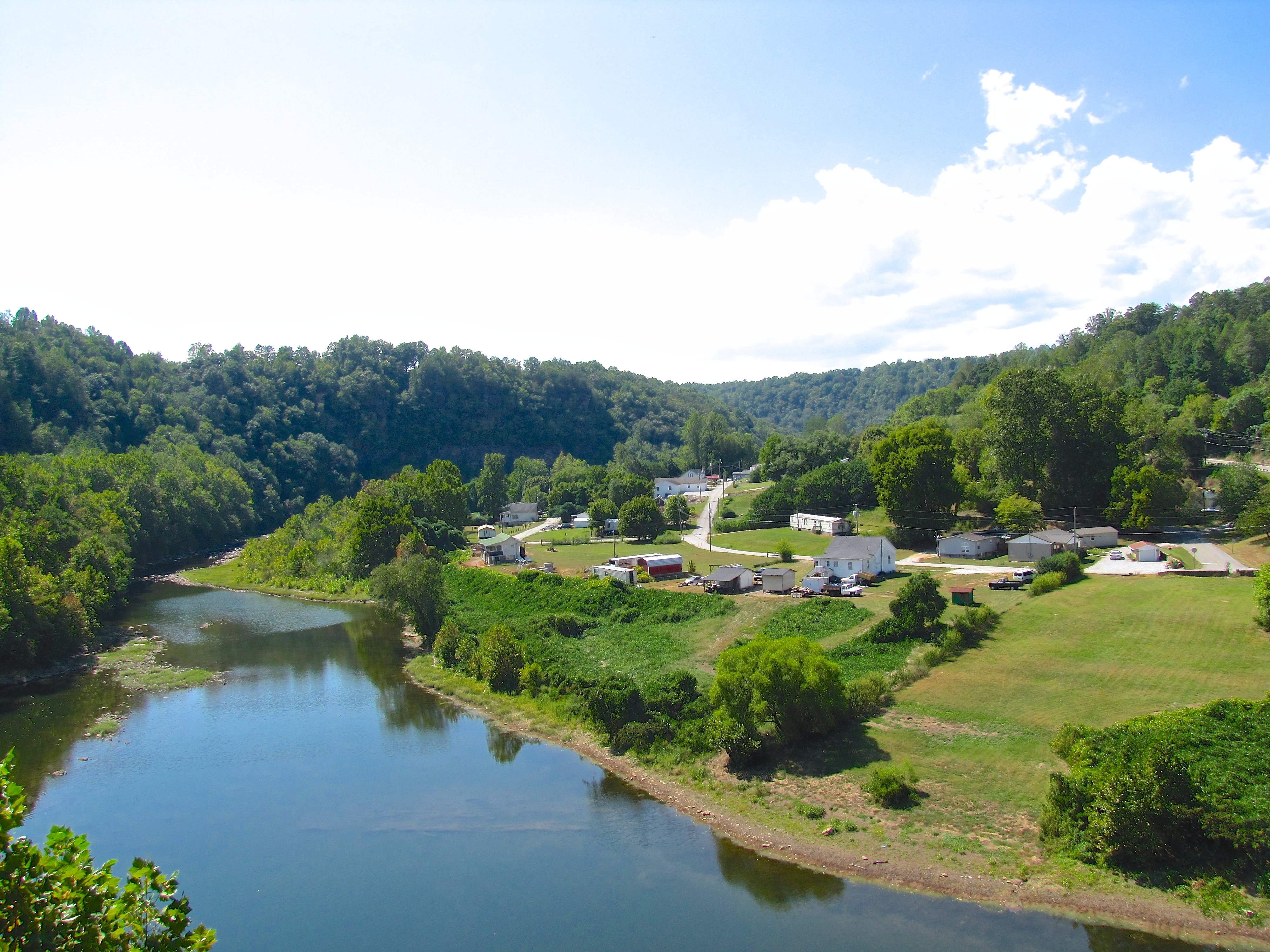 Houses along the Emory River in Oakdale, Tennessee, United States.